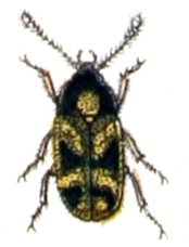 Litargus connexus, from Calwer's Käferbuch, Table 15, Picture 36. Taxonomy was updated to 2008, using mostly the sites Fauna Europaea and BioLib. Please contact Sarefo if the determination is wrong!